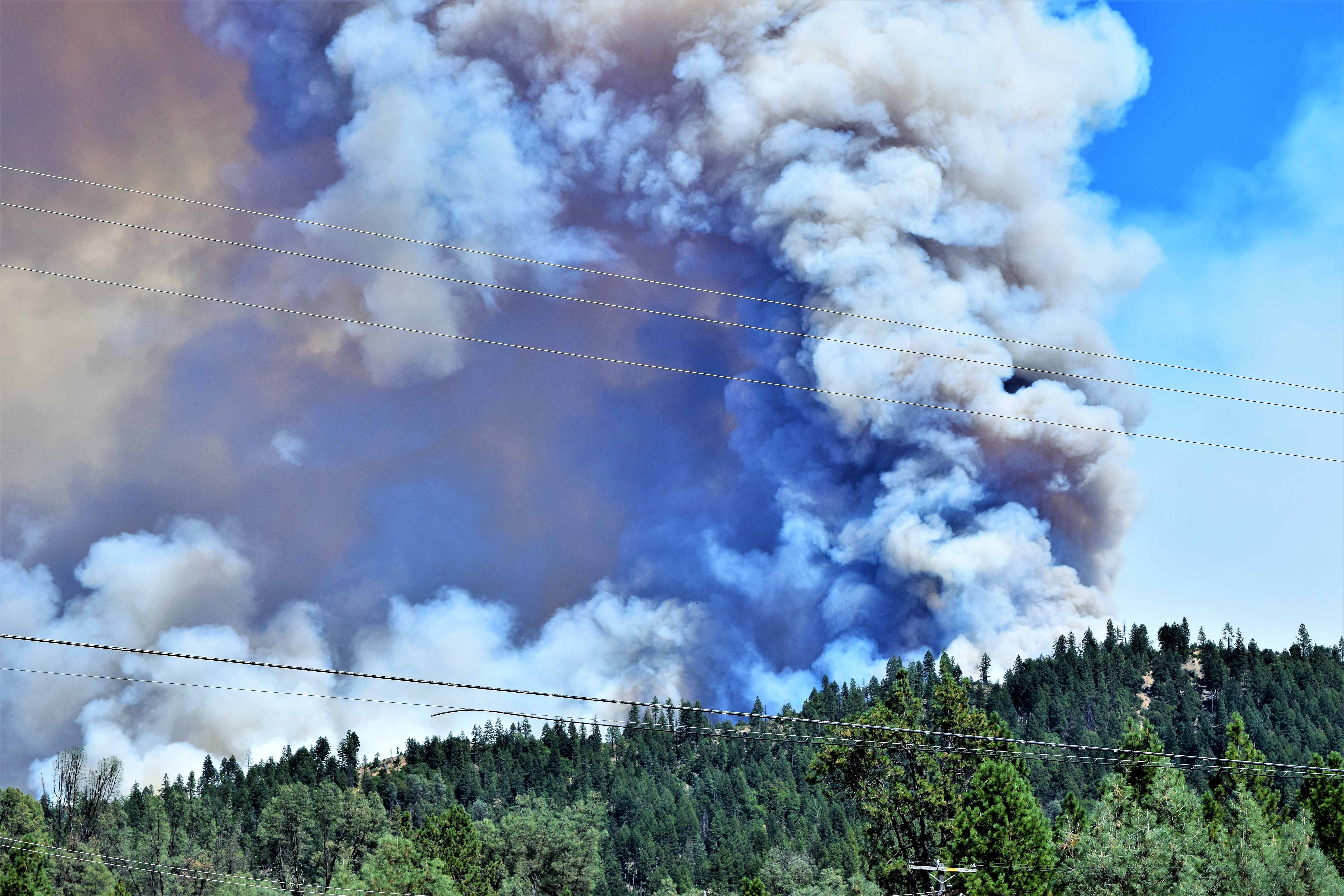 The Carr Fire is a 2018 California wildfire that burned in Shasta and Trinity counties. Photo by Eric Coulter, BLM.